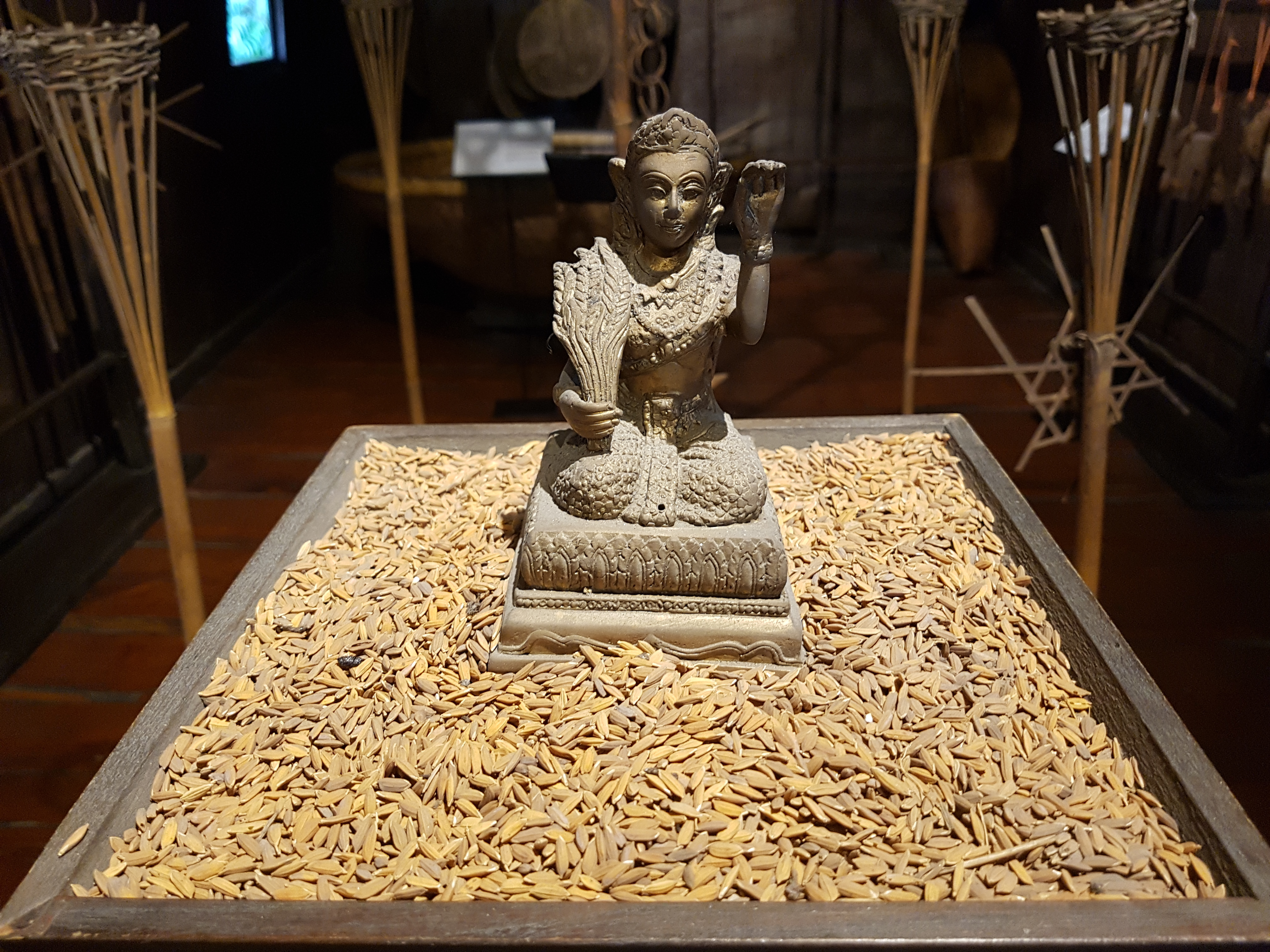 Place: Siam Society Headquarters, Bangkok, Thailand. Items: Phosop image on top of rice container.